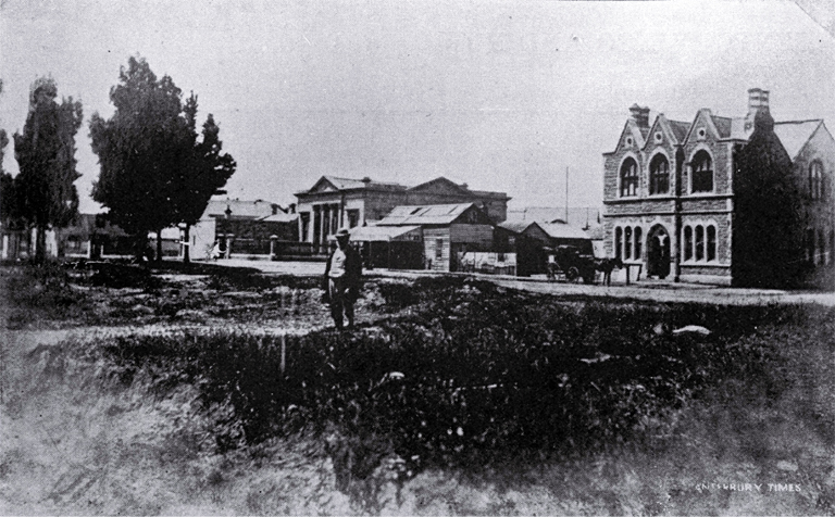 This was Exhibit O in a successful action in the Court of Appeal brought by George Gould (1865-1941) and the Save the Square Committee against the Christchurch City Council in 1930. On the right is the Torlesse building. Built in Gothic style, it was the first stone structure in the Square and was a small office block. It was demolished in 1916. The original BNZ building is in the centre.